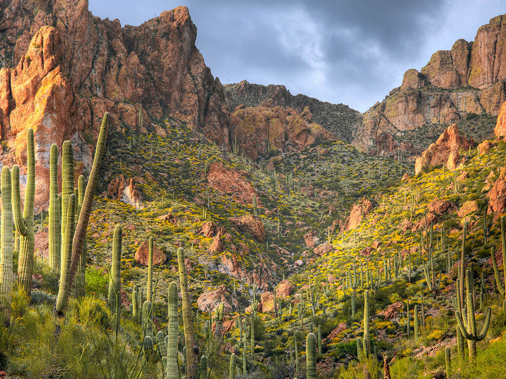 Photographed by Doug Dolde More images from this location at